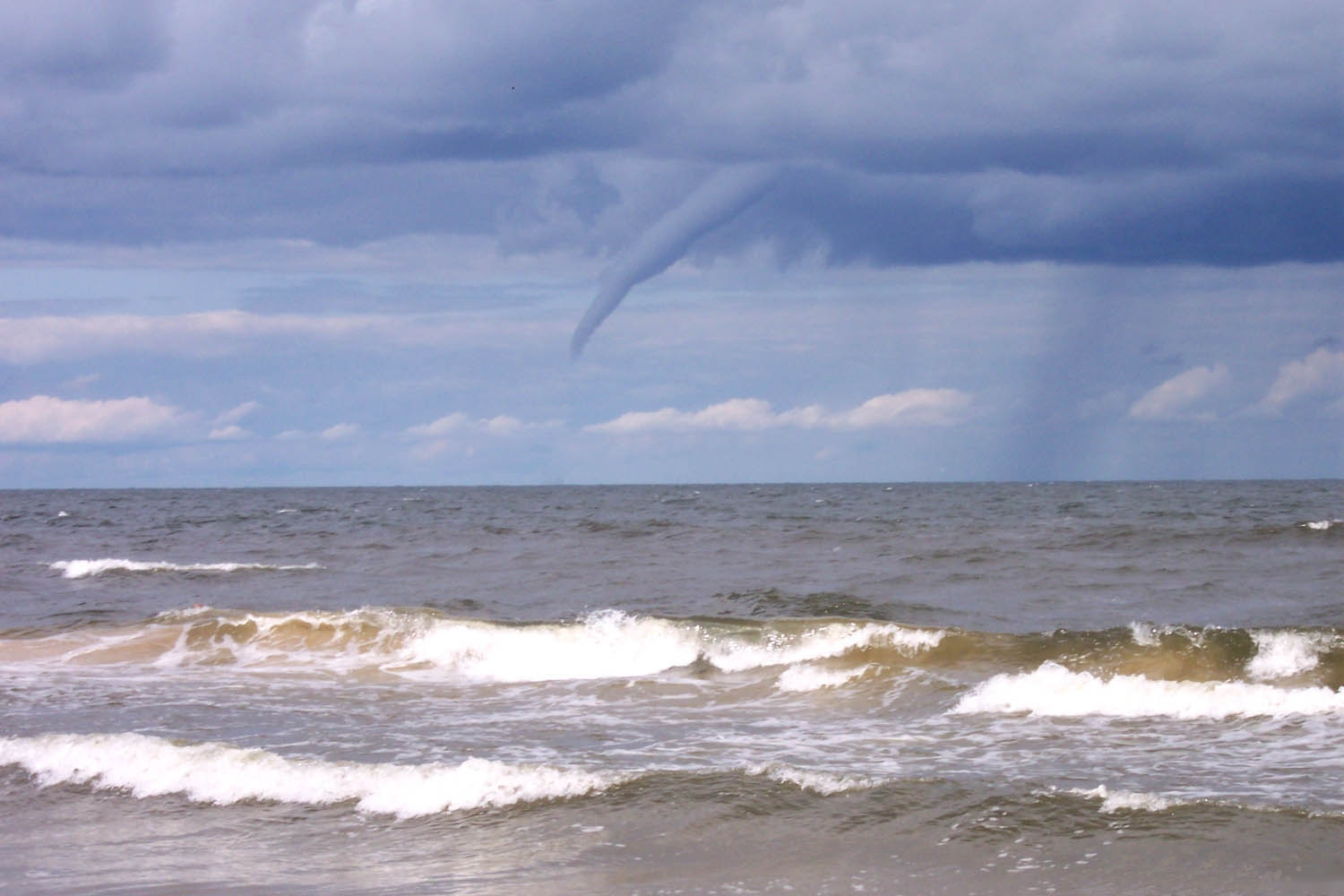 a funnel cloud off the island of Usedom* Location: beach 10 minutes west of the Bansin pier* Other: From this tornado, there are probably other pictures at [2]